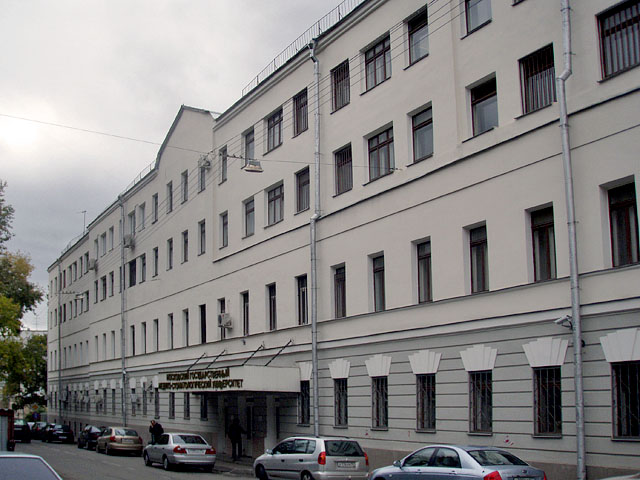 Moscow State university of dentistry. Delegatskaya street building.